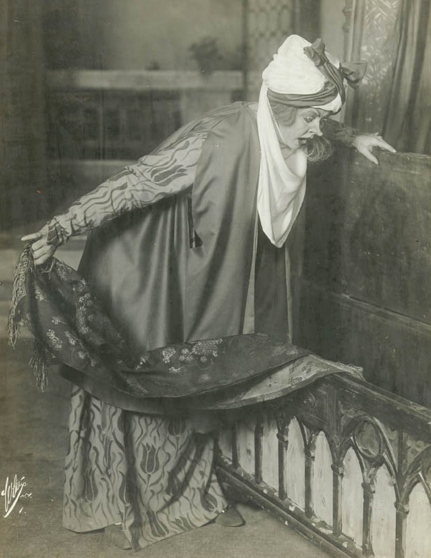 canadian opera singer and actress Kathleen Howard (1884-1956) as Zita in Gianni Schicchi from Puccini's Il Trittico